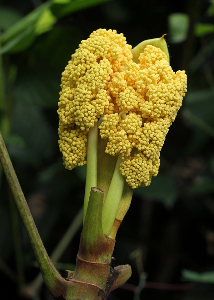 Musanga cecropioides R.Br. ex Tedlie - male flower